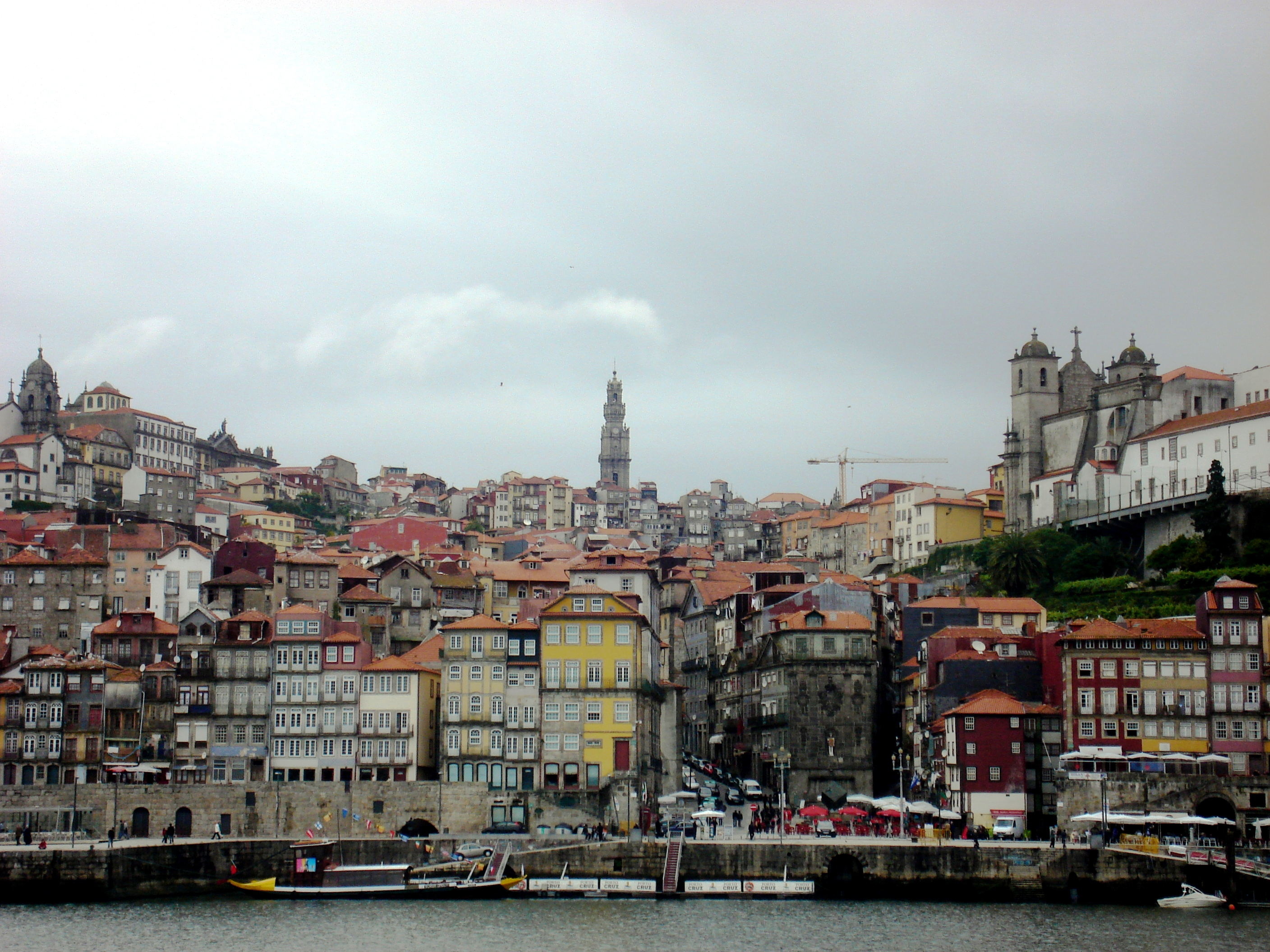 A view of porto from Gaia